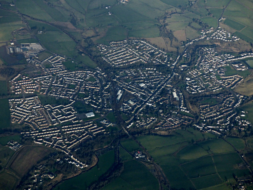 Stewarton from the air